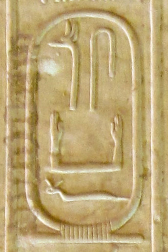 Cartouche 26, Abydos King List. Temple of Seti I, Abydos, Egypt